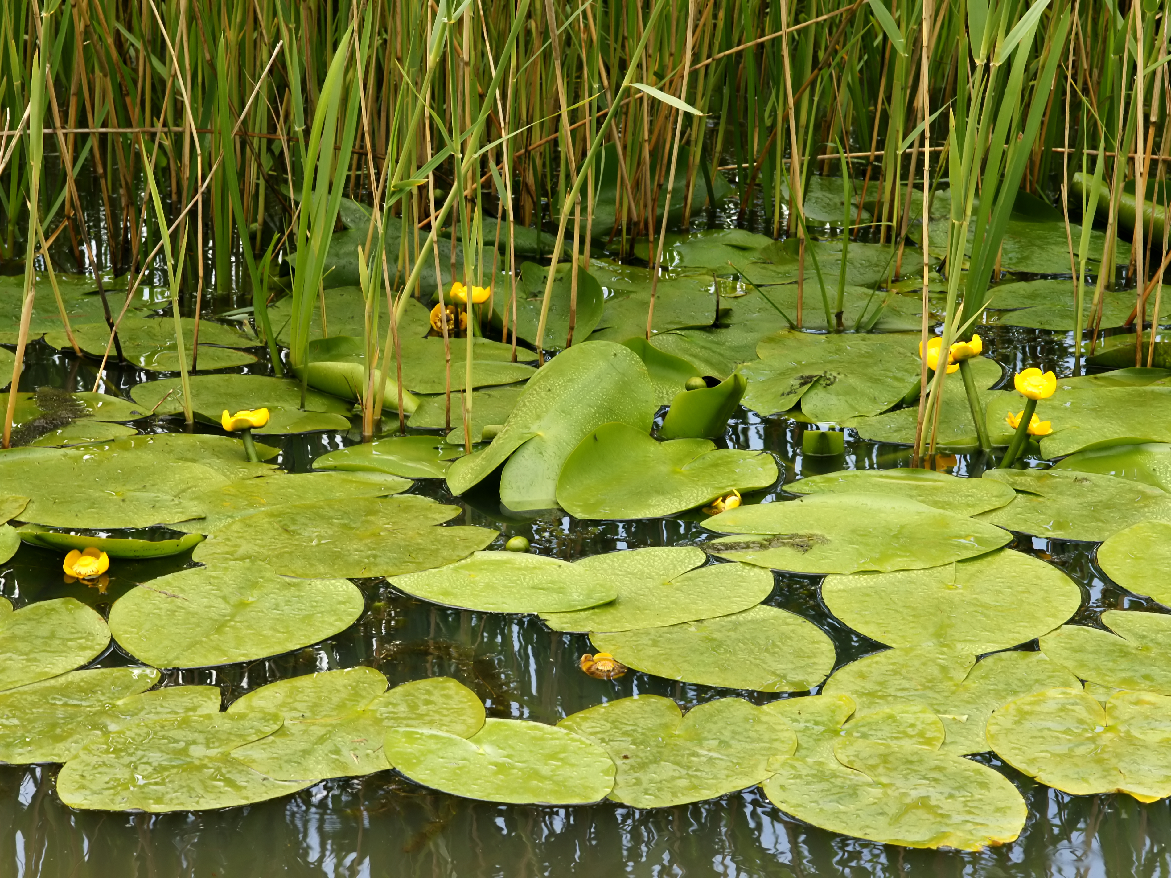 Yellow water-lily at the Leiemeersen in Oostkamp, Belgium.